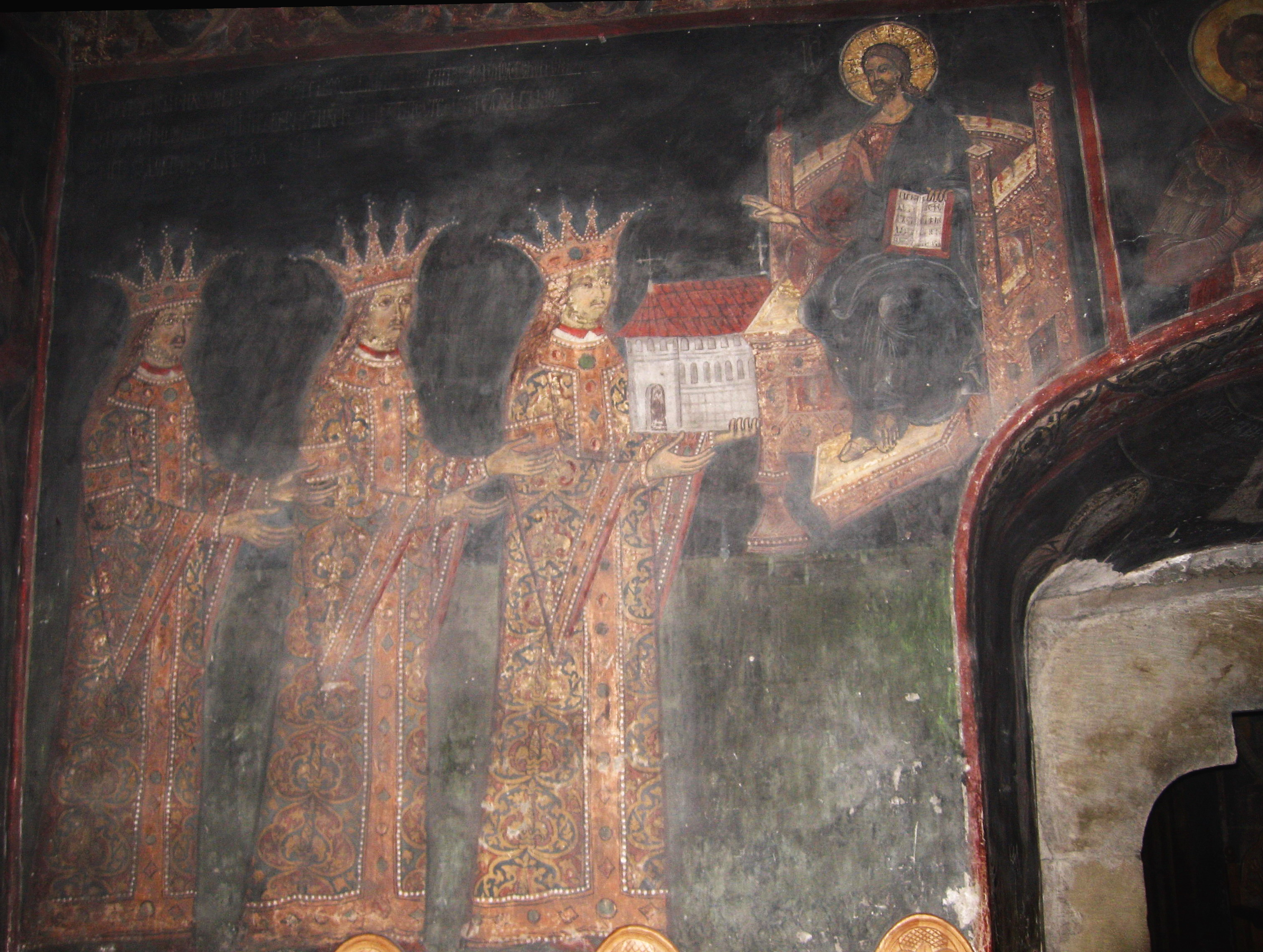 Mănăstirea Dobrovăţ